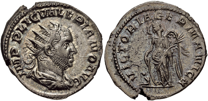 Valerianus I. AD 253-260. AR Antoninianus (21mm, 3.90 g, 6h). Viminacium mint. 1st emission, 1st phase, AD 253. IMP P LIC VALERIANO AVG, radiate, draped, and cuirassed bust right, seen from behind VICTORIA GERMANICA, Victory standing facing, head left, leaning upon shield and holding palm branch; at feet to left, bound captive left. RIC V 264; MIR 36, 793d; RSC 253 var. (bust not cuirassed). Near EF, attractively toned. From the White Mountain Collection.